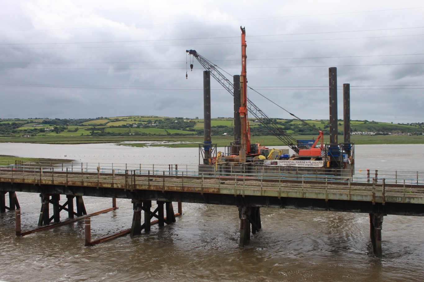 A barge has been moored alongside the wooden Loughor Viaduct near Swansea to allow piles to be driven in to strengthen and modernise the viaduct to allow it to carry two tracks.